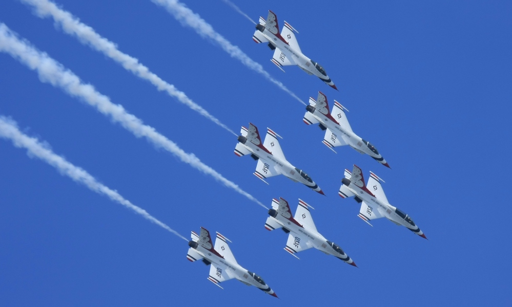 USAF Thunderbirds Flight Demonstration Team 6 plane formation. Photograph by Scott Dunham of air show flight demonstration at Air Power Over Hampton Roads, Langley AFB, April 2009.